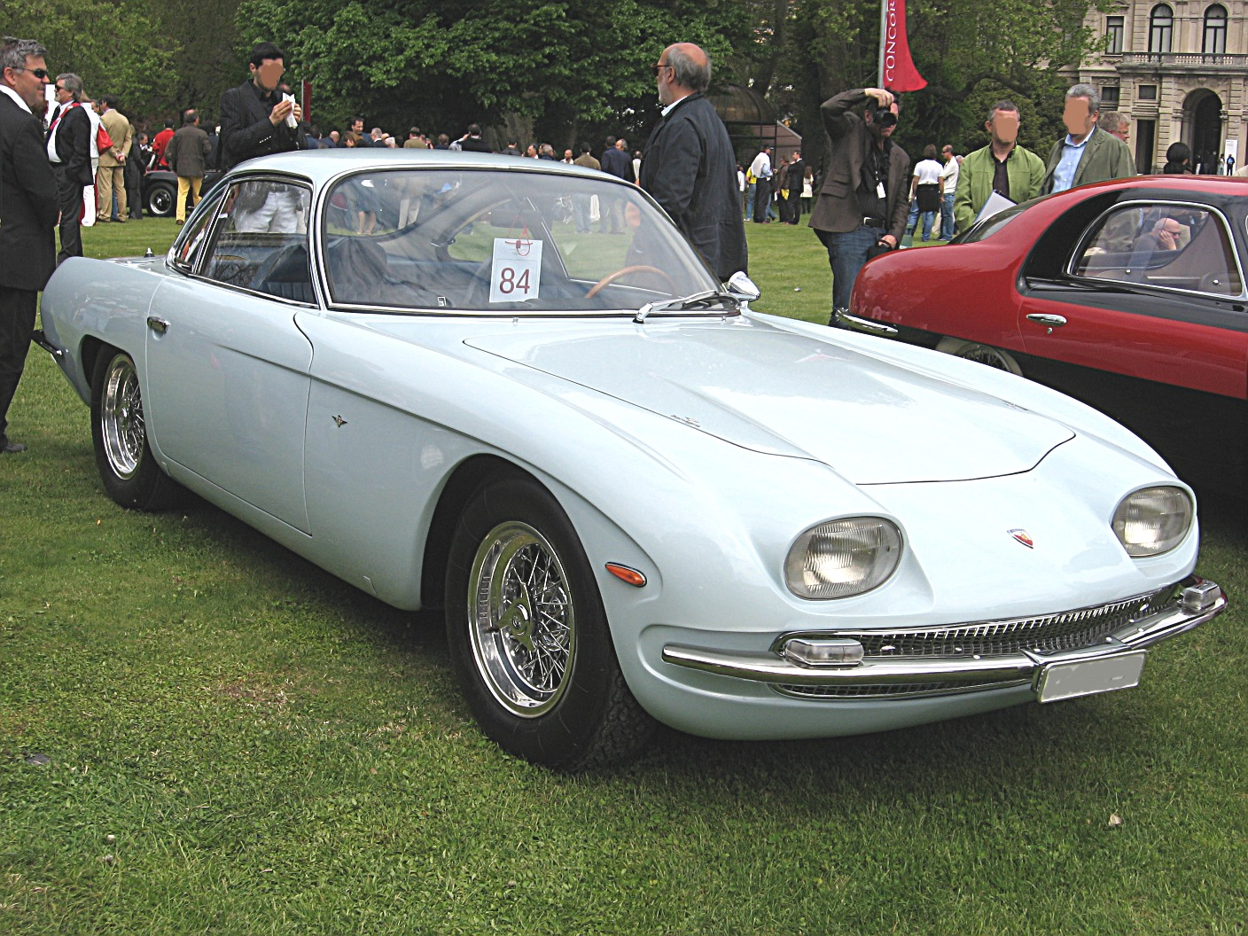 Subject:Lamborghini 350 GT Date:April 27th, 2008 Event:Concorso d’Eleganza”Villa d’Este” 2008 Place/Country: Cernobbio (CO), Italy I release all rights in the public domain.